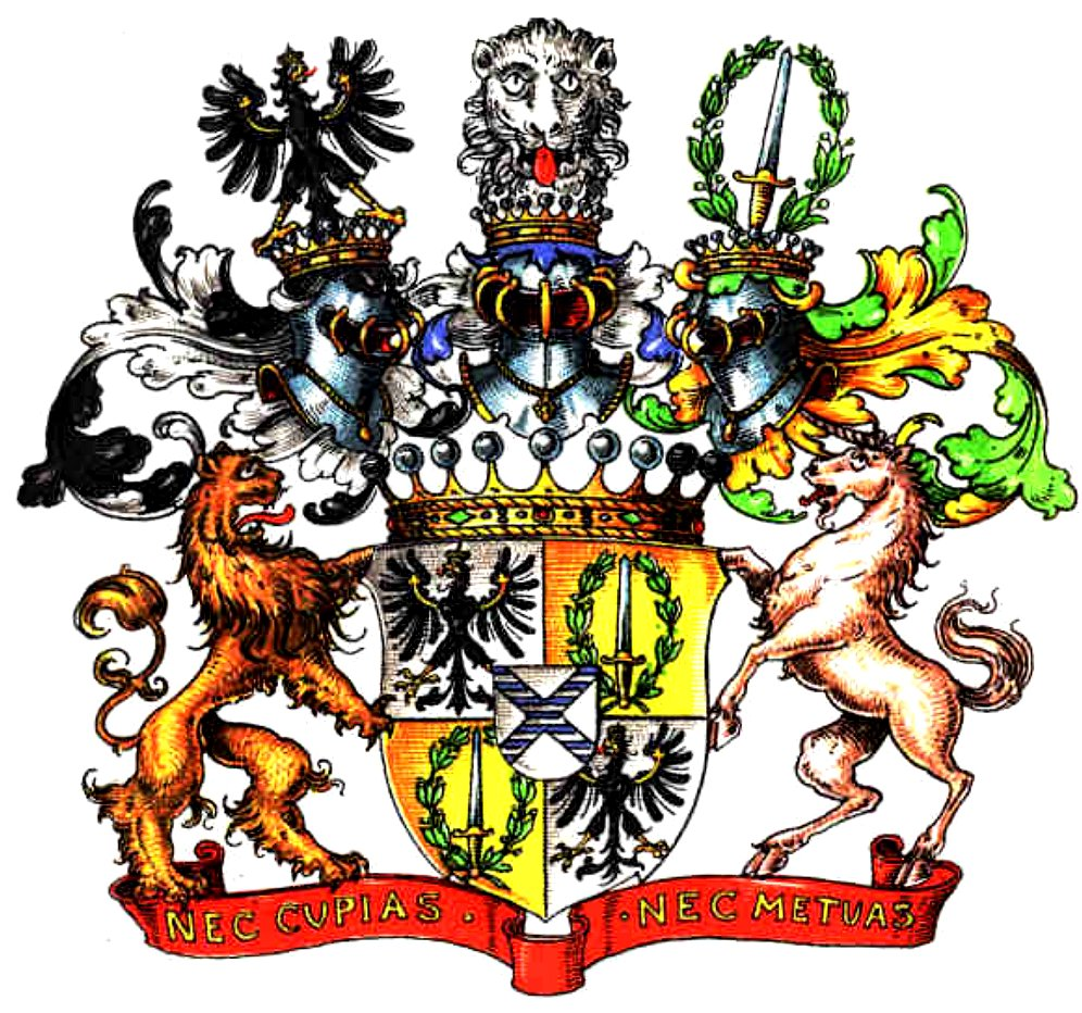 Coat of arms of the Counts of Yorck von Wartenburg.